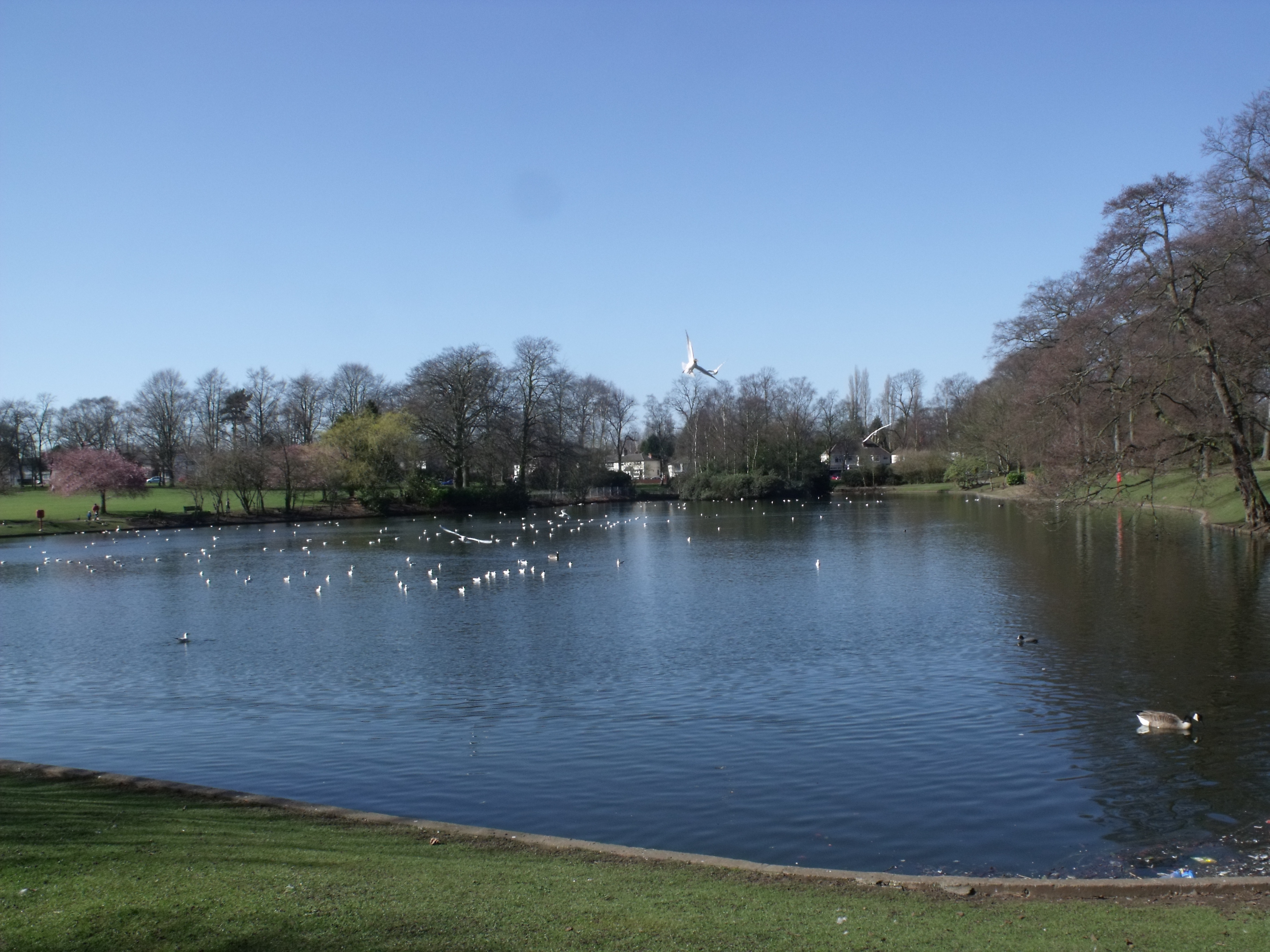 I returned to Swanshurst Park when I heard that Zippos Circus was in town. While it was a nice day, with sun shine and a blue sky, I headed towards the park to get shots with the circus. I looks quite nice with the lake. I was thinking on going on the other side of the lake (closer to the circus) but thought it would look nice with the lake. More birds in flight.